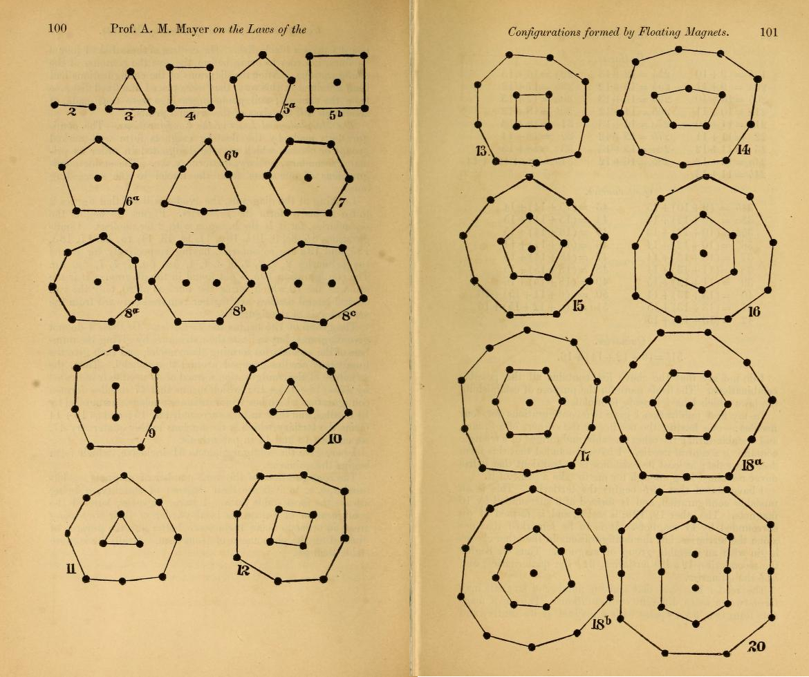 Results of Alfred M. Mayer experiment with floating magnet nails